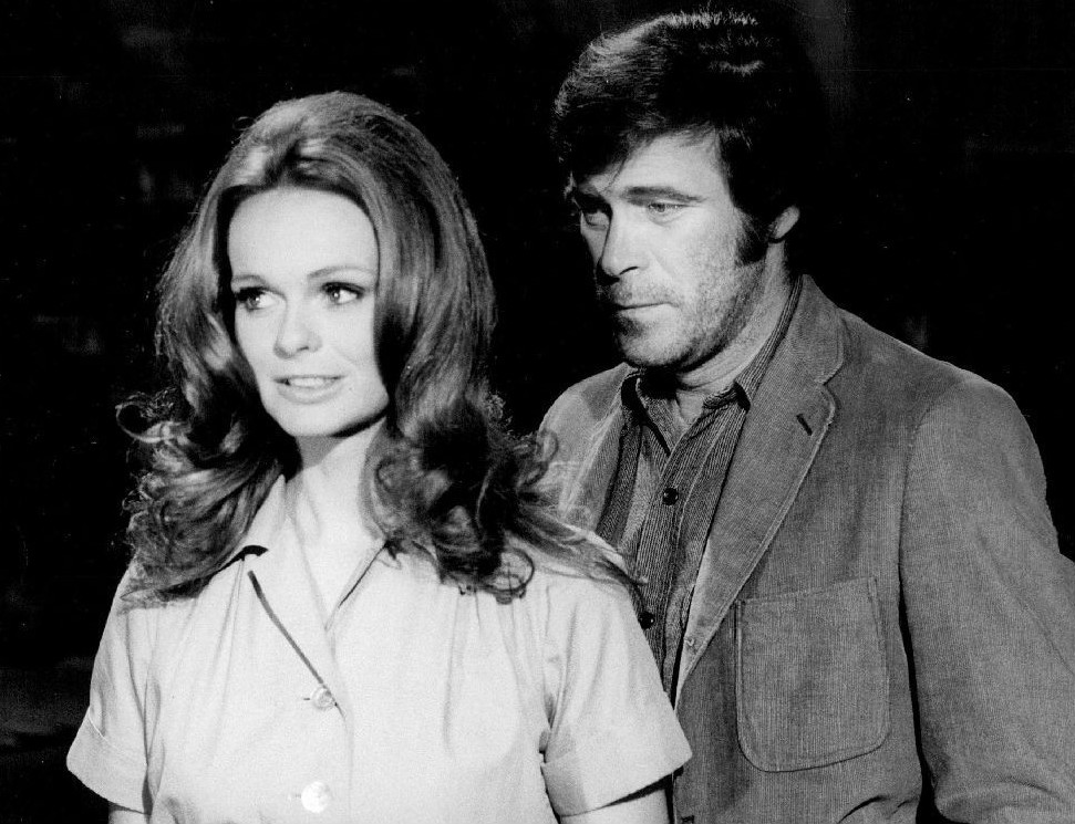 Photo of Lynda Day George with husband Christopher George who was a guest star on Mission:Impossible in 1971.